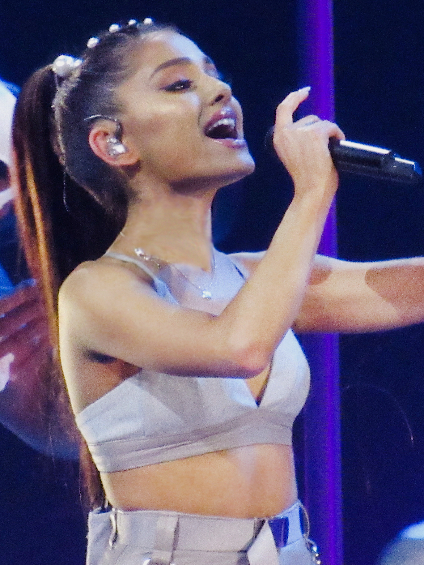 Dangerous Woman Tour 2/19/17 Ariana Grande performing during Dangerous Woman Tour in Manchester, New Hampshire, SNHU Arena, on February 19, 2017.